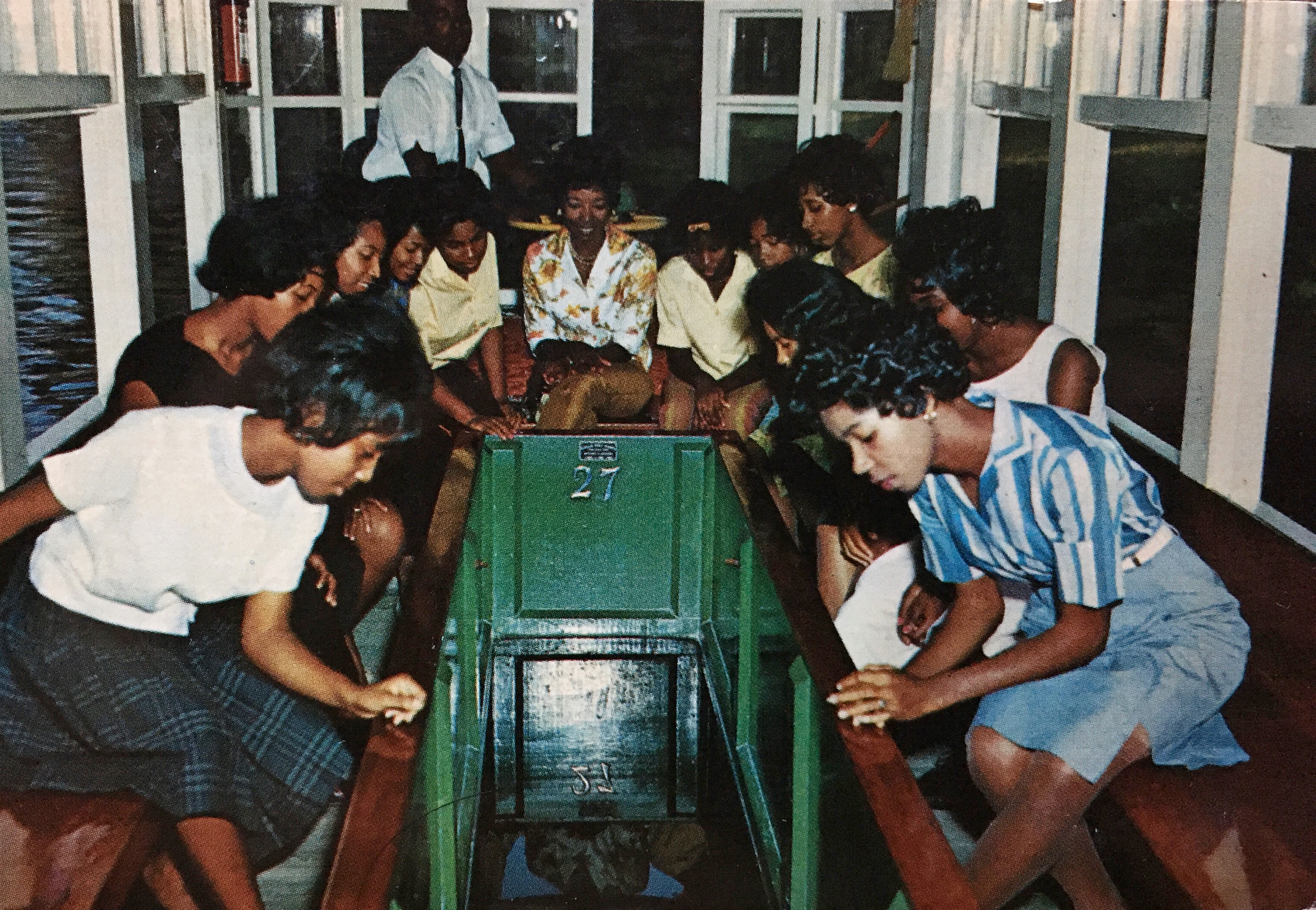 Reverse side reads: “SEE SILVER SPRINGS FROM BEAUTIFUL PARADISE PARK Ride in world famous Glass Bottom Boats over the largest group of Springs in the world. See all the mystery and beauty of the underwater world in a 45 minute cruise over water as clear as the air. Open every day of the year.”